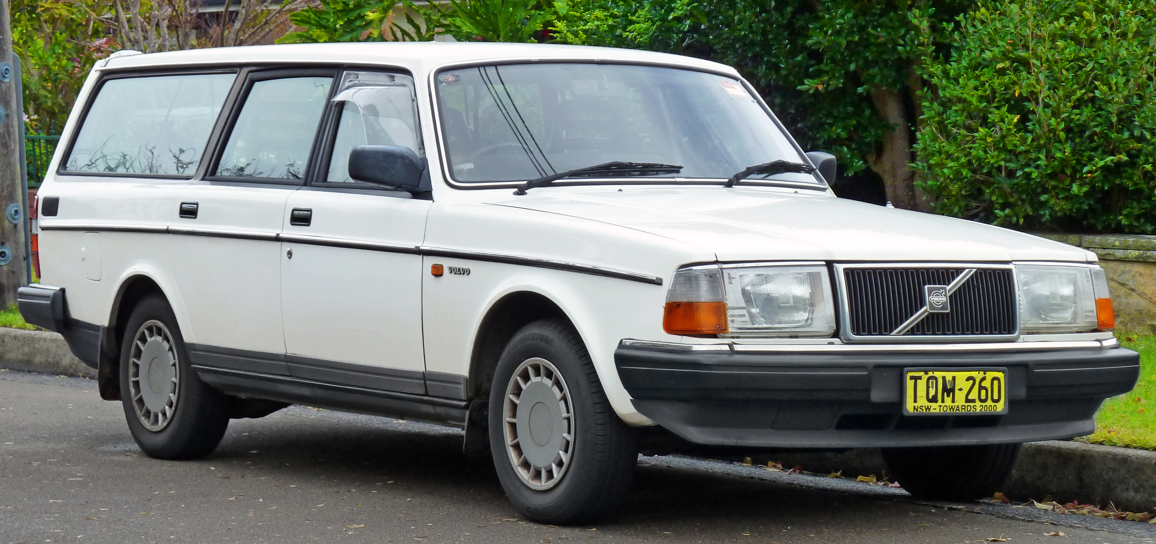 1989 Volvo 240 GL station wagon. Photographed in Gordon, New South Wales, Australia.